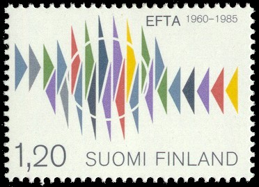 EFTA 25 years - Finnish stamp